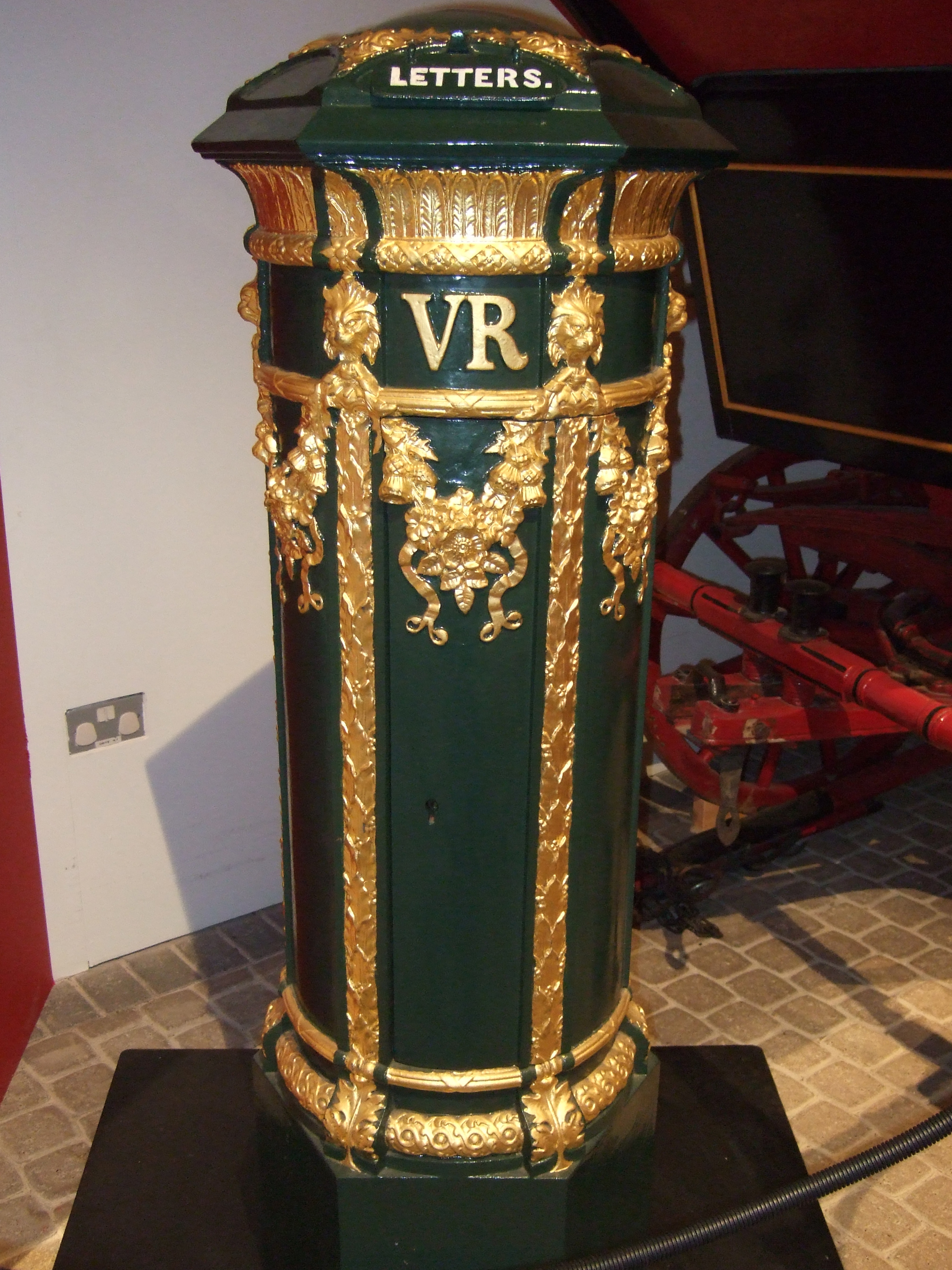 Accompanying the Mail Coach is the London Ornate pillar box (1857-1859), which was designed in collaboration with the Government’s Department of Science and Art in an attempt to make pillar boxes more attractive. They were made a foot shorter than earlier boxes and were first introduced in London but were also sent to Dublin, Birmingham, Edinburgh and Manchester. Fifty of these boxes were produced. The earliest versions of these boxes incorporated a ceramic compass on top. The original design failed to include an aperture so this was added later in the cap. However it was soon realised that rain water entered the box so a liftable flap was added. Expensive to manufacture, an economy version of this box was produced without all the elaborate mouldings for use outside the major cities. For more information on this exhibition please visit: our website